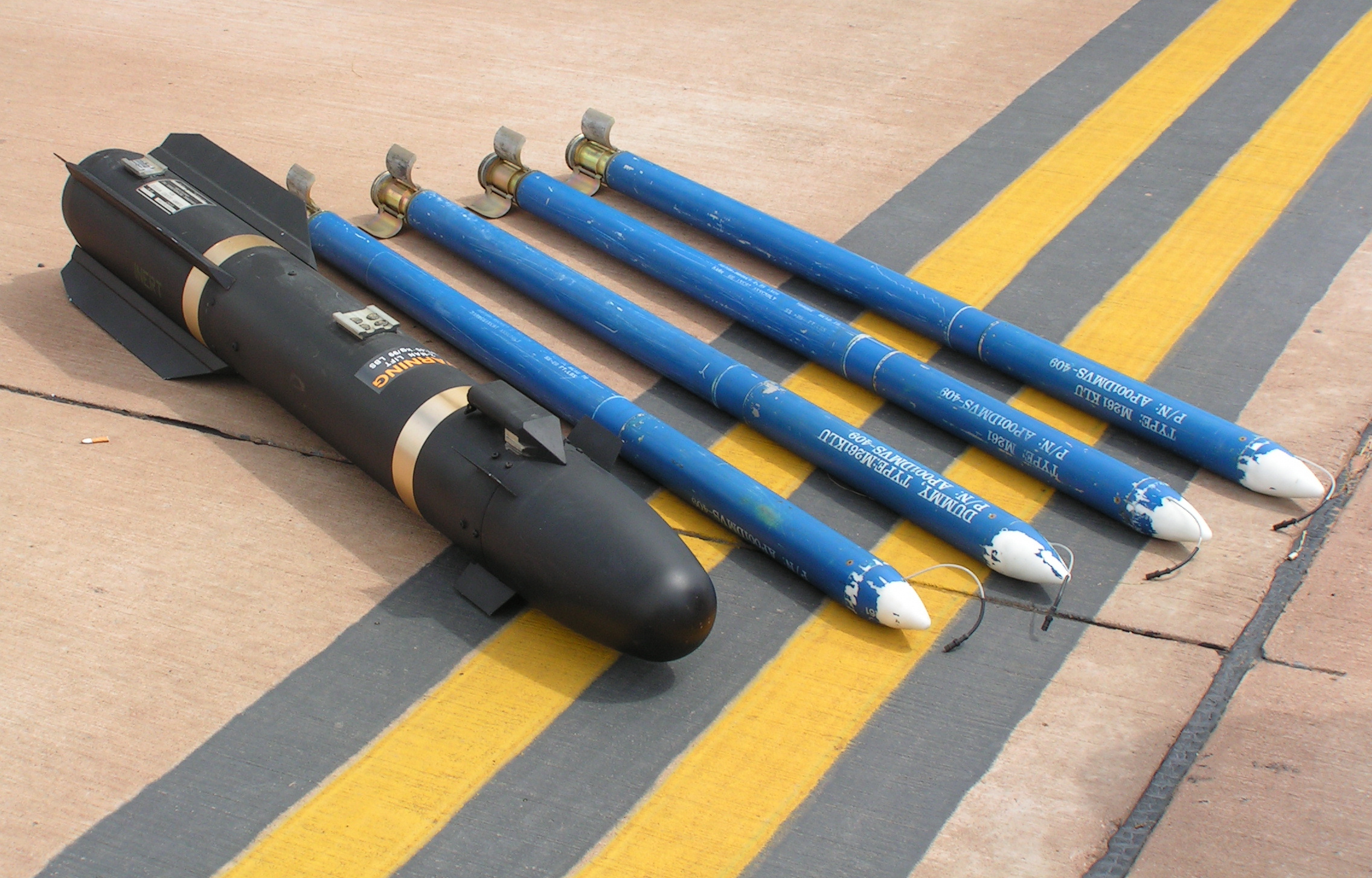 An AGM-114 Hellfire and four Hydra 70 M261 rockets on display at the RIAT2007.